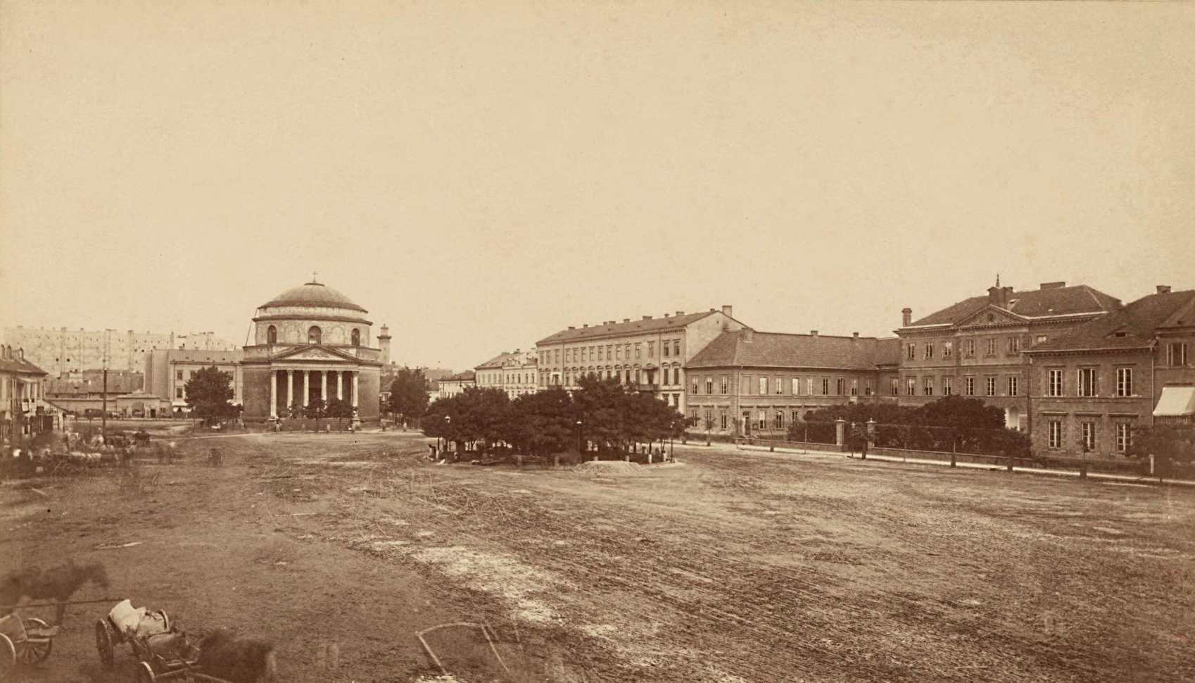 Three Crosses Square in Warsaw, view to the north